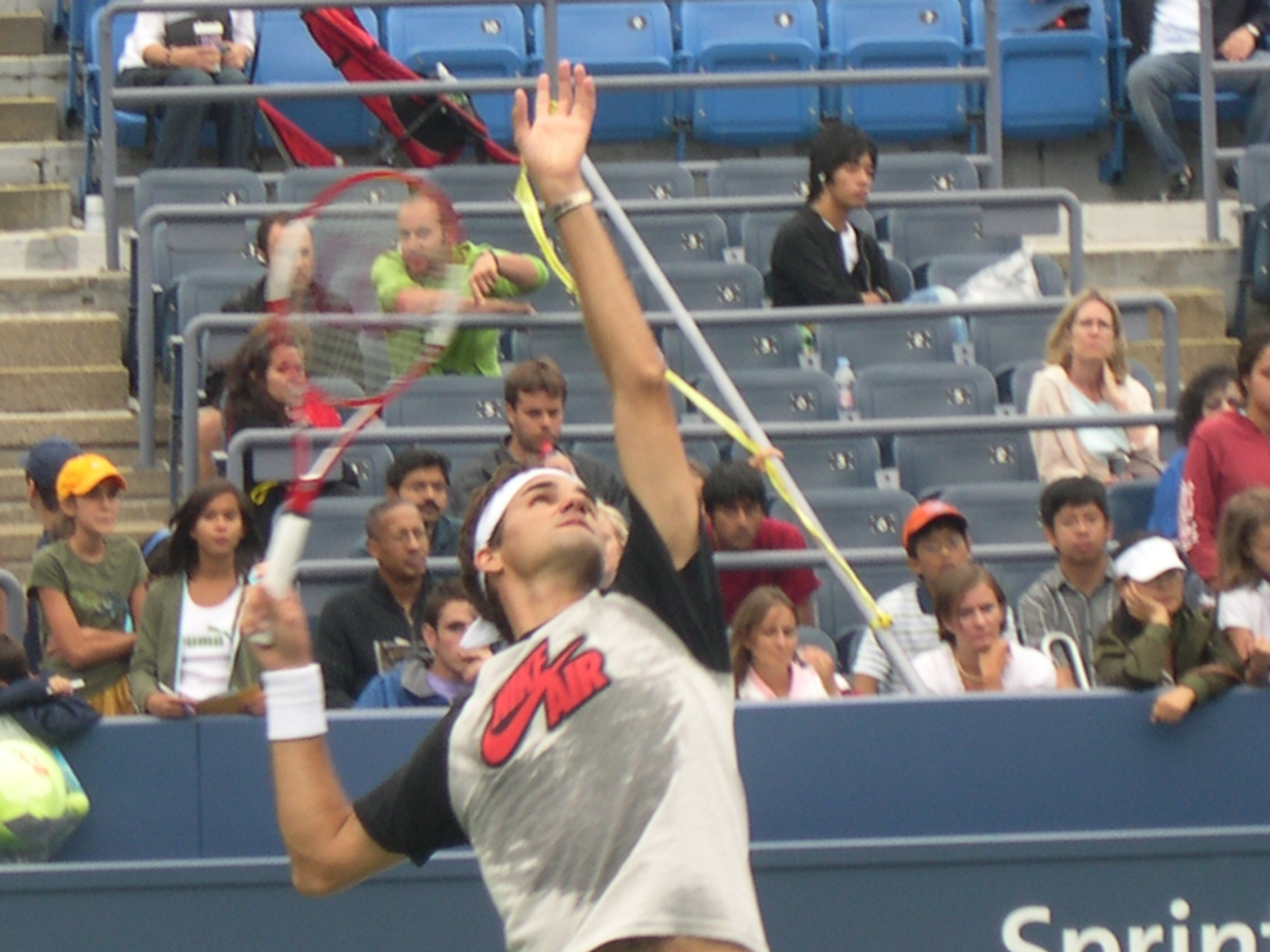 Photo taken by myself at 2006 US Open Practice Session